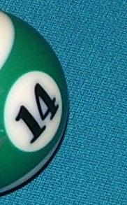 A somewhat-closeup view of baize, the type of fabric used to cover billiard tables, showing its weave clearly, and with an American-sized pool ball for scale. This particular sample is Simonis 760, a high-end pocket billiards cloth; it is napless, unlike snooker cloth, and smooth and non-fuzzy, unlike typical bar pool cloth.